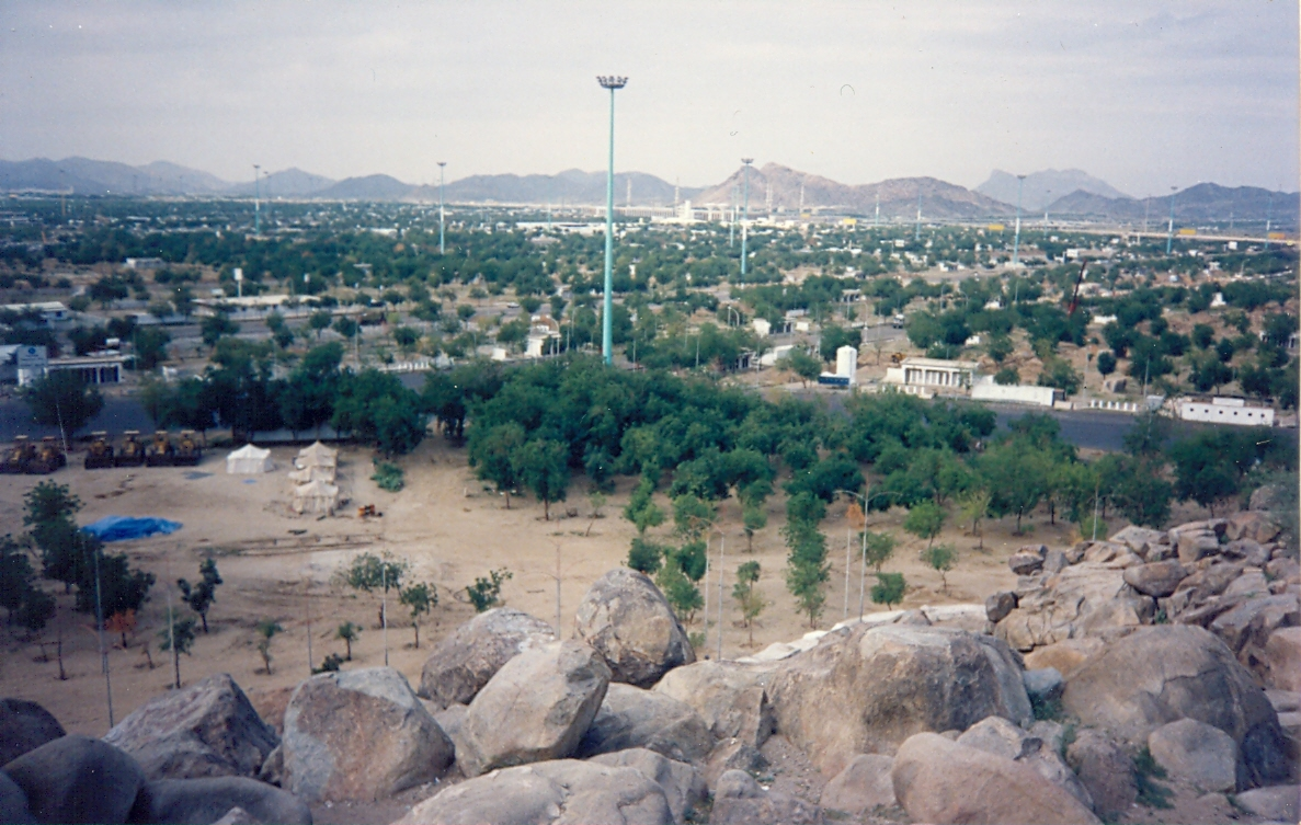 Arafat in Hajj